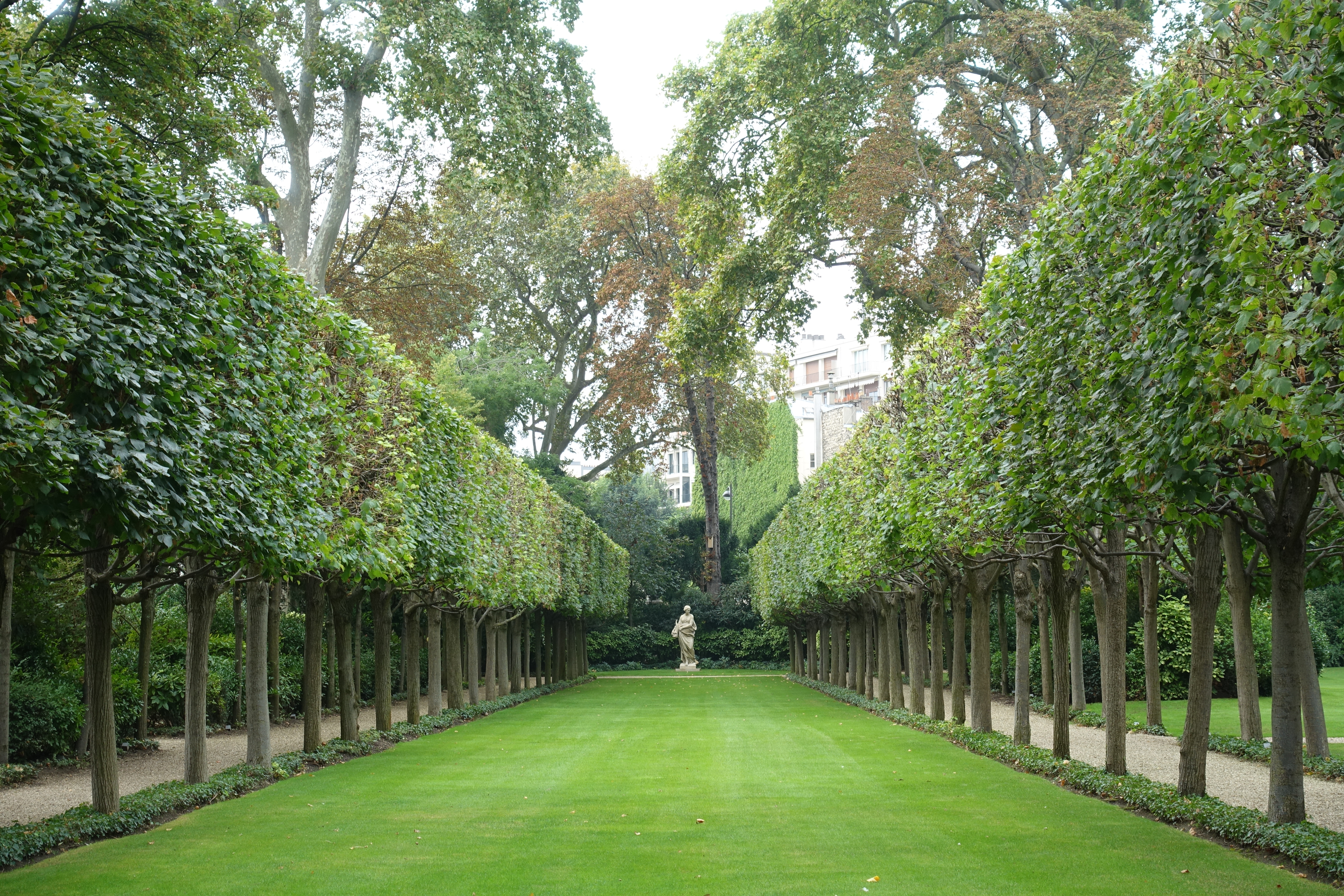 Garden @ Hôtel Matignon @ Residence of the Prime Minister of France @ Paris